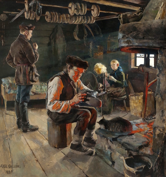 Rustic Life depicts the main room of the Ekola farm house in Keuruu